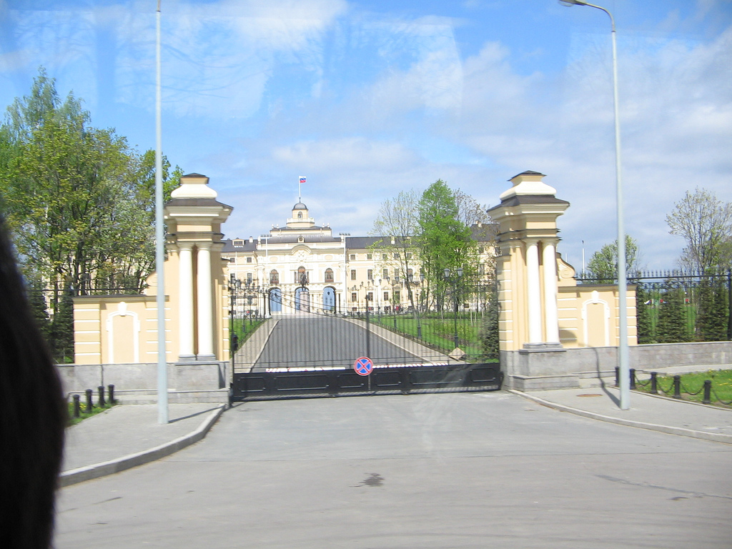 Saint Petersburg (Russia), Strelna, Constantine Palace.